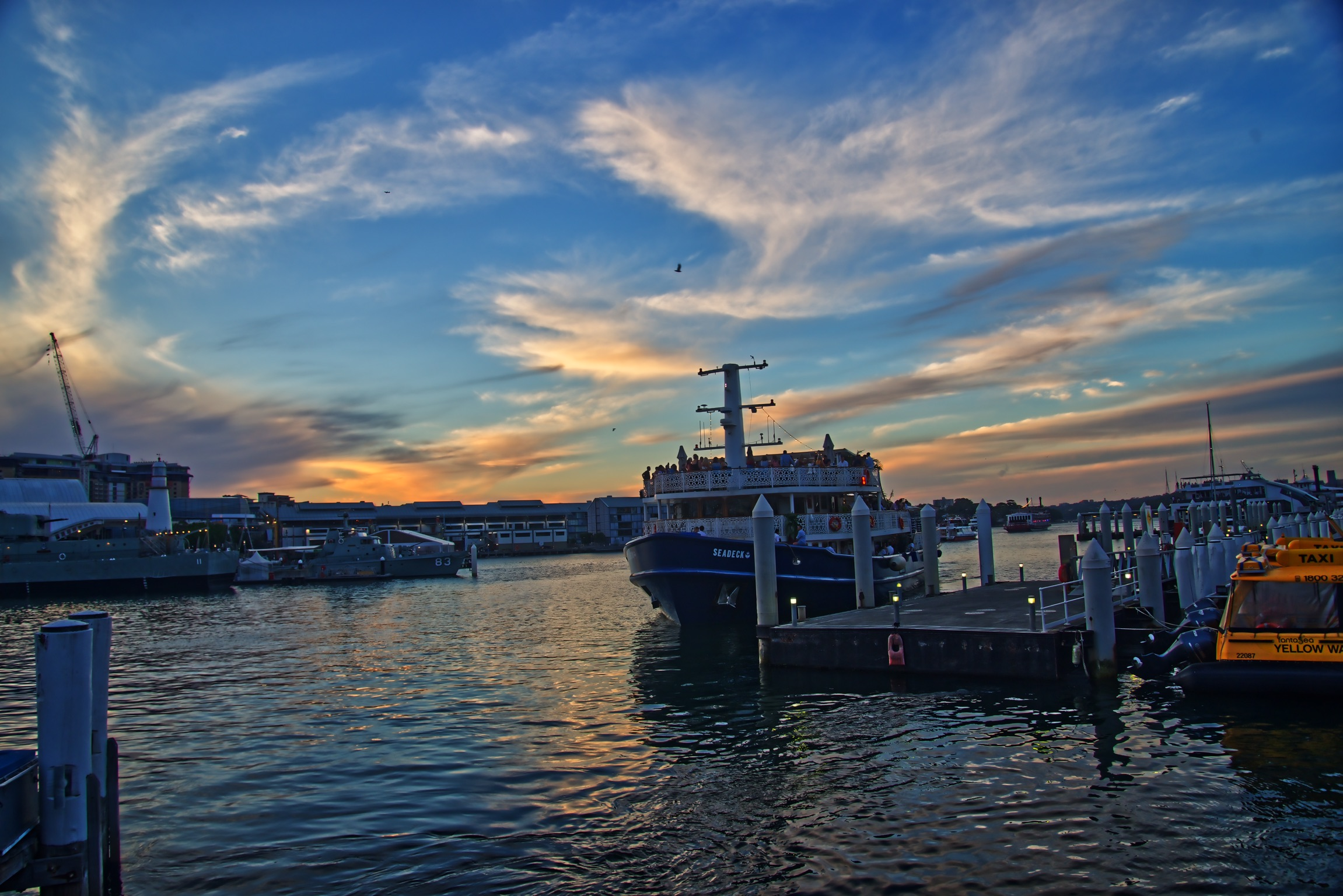 Darling Harbour at dusk